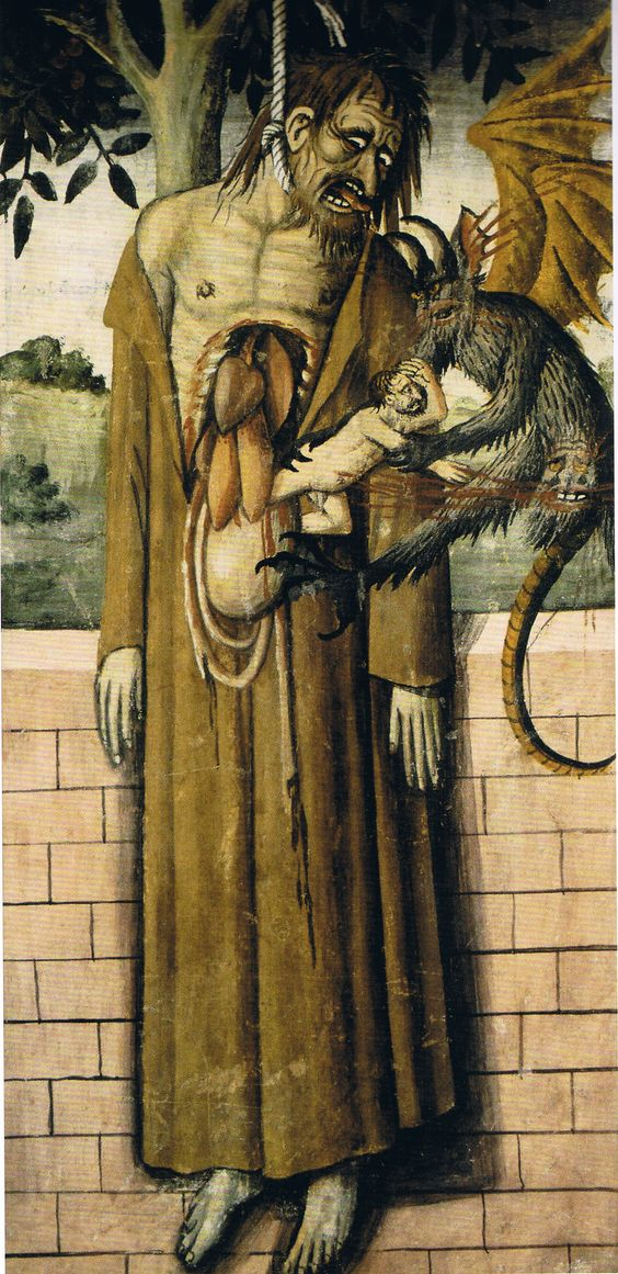 Giovanni Canavesio's work on depicting hanging Judas